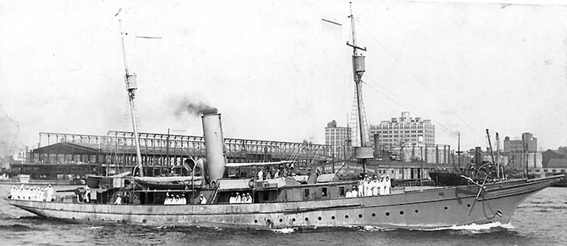 Photo #: NH 83444 USS Corona (SP-813) Underway in 1917, with her crew manning her rail, probably as she was departing New York City en route to France on 31 July. Pier in the center distance is marked "Compagnie Generale Transatlantique -- French Line". U.S. Naval Historical Center Photograph.